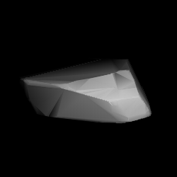 3D convex shape model of 1746 Brouwer, computed using light curve inversion techniques. J. Hanuš, J. Ďurech, M. Brož, B. D. Warner (June 2011). "A study of asteroid pole-latitude distribution based on an extended set of shape models derived by the lightcurve inversion method". Astronomy and Astrophysics 530: A134. ISSN 0004-6361. arXiv